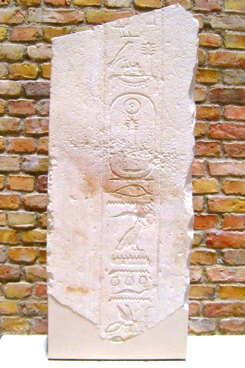 Relief Djedkare Isesi - 5th dynasty of Egypt - Egyptian museum of Berlin